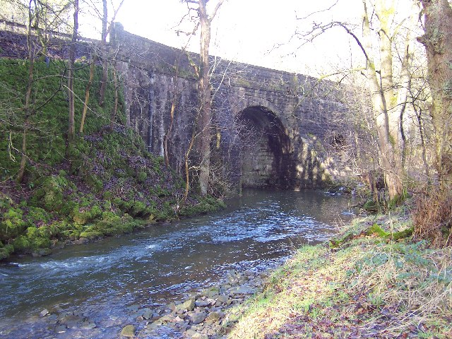 Stock Beck Bridge. Carries the A682 Long Preston to Nelson Road over Stock Beck, just north of Gisburn.